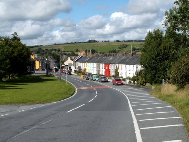 Pontrhydfendigaid Village on the B4343 Road